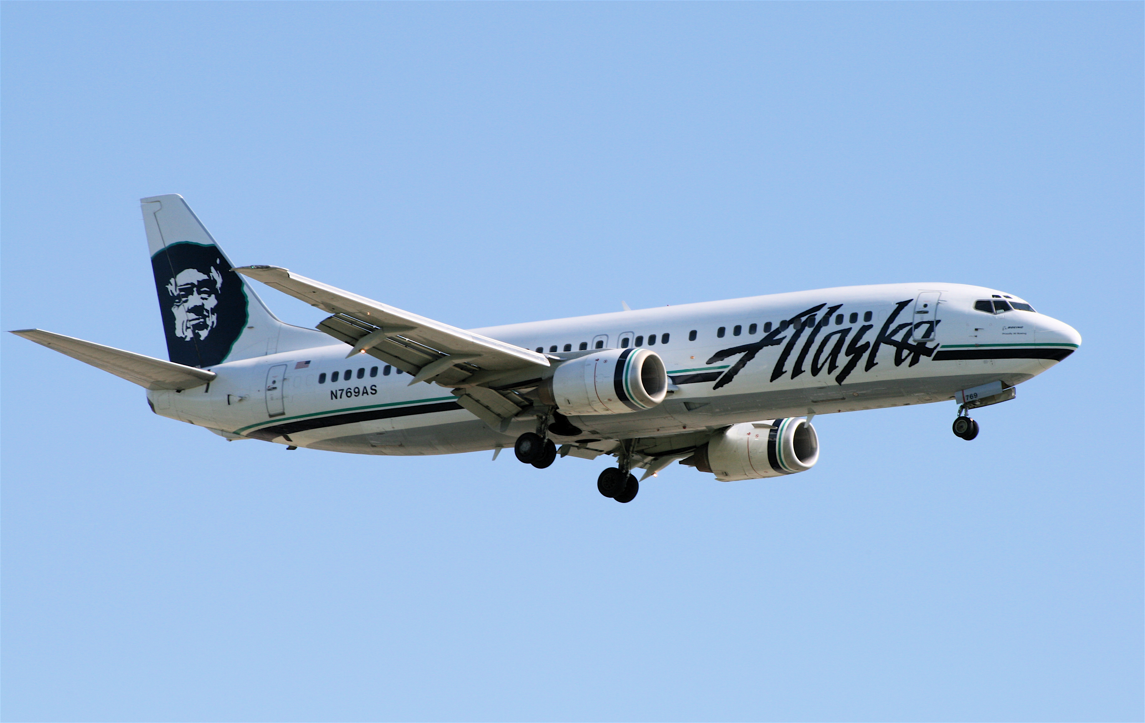 An Alaska Airlines Boeing 737-4QB landing at Vancouver International Airport